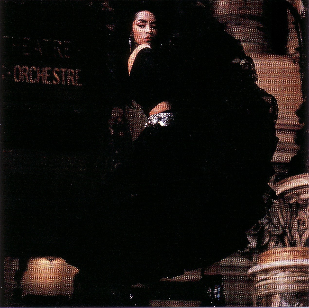 Jody Watley on the set of 'Still a Thrill Video' filmed in Paris, France in 1987.